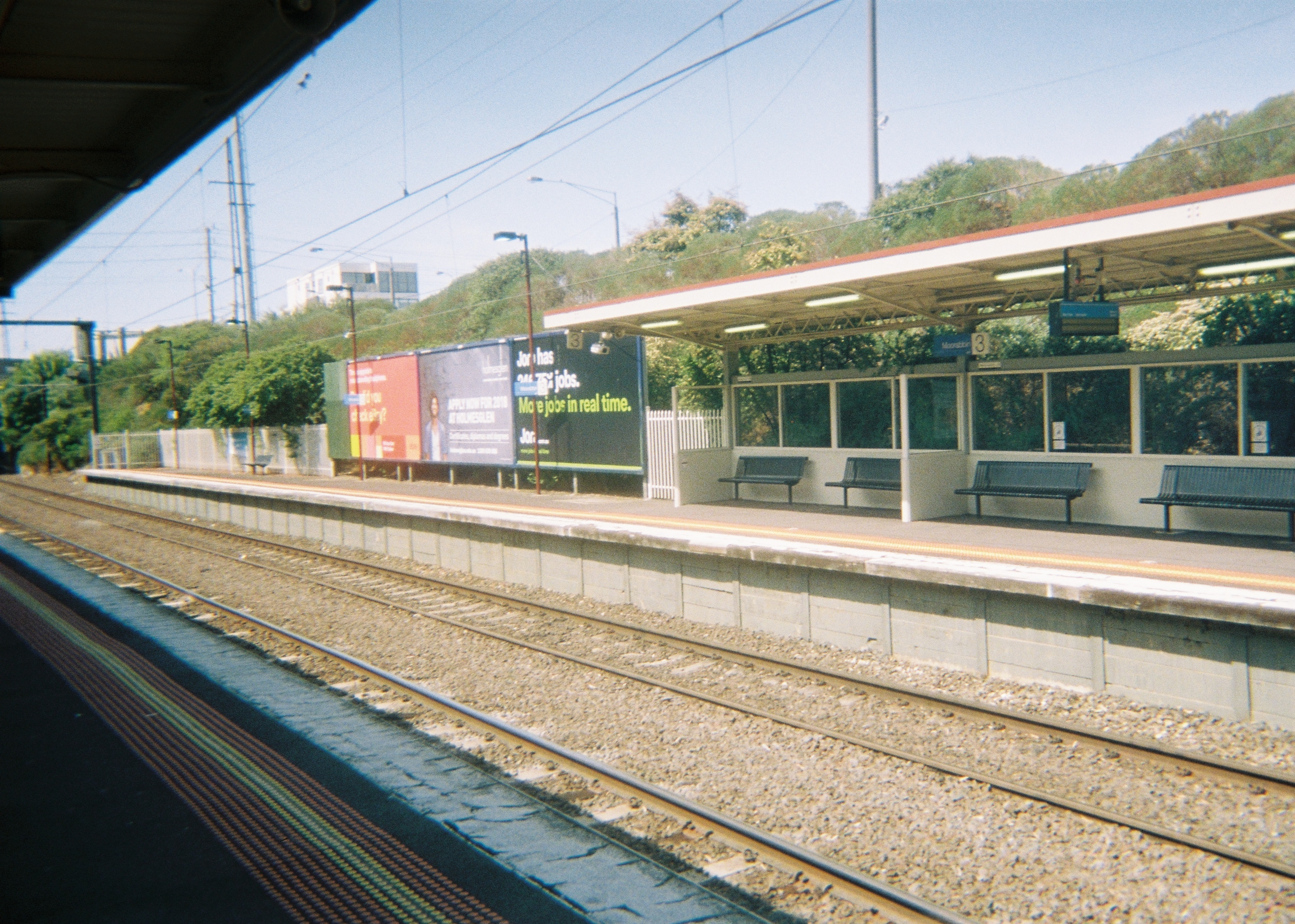 Moorabbin station in 2017.